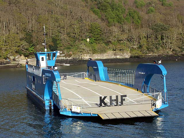 The new King Harry Ferry (No. 7). For more information see the Wikipedia article King Harry Ferry.